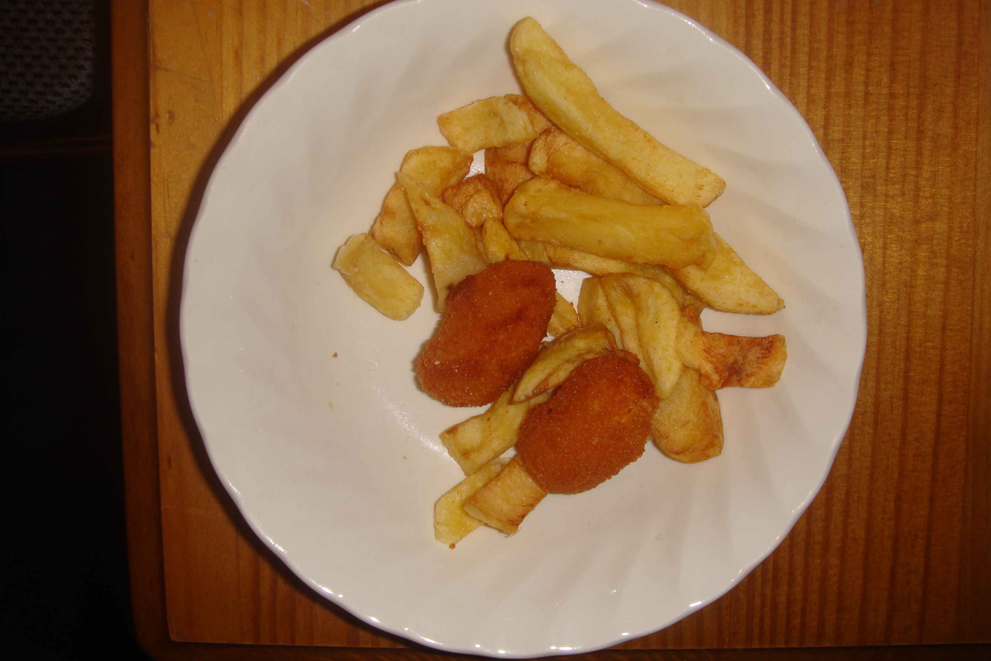 Α dish of scampi and chips, from London.